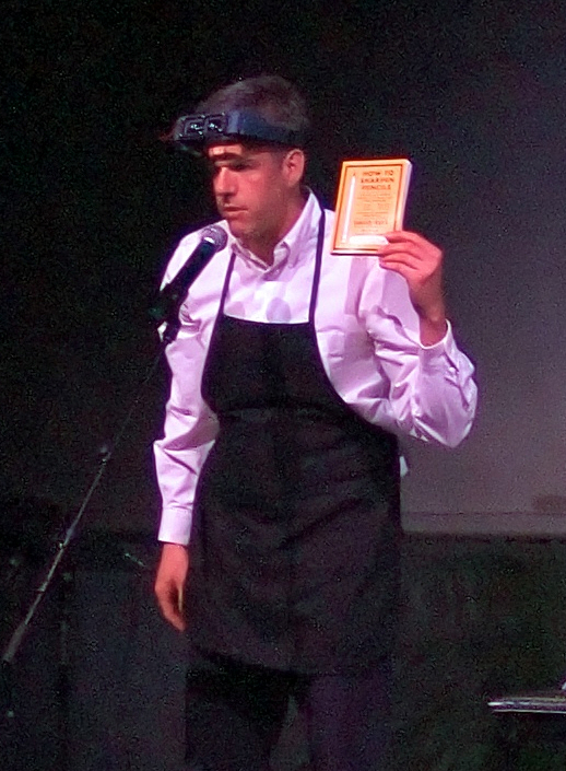 David Rees Pencil Sharpening Demonstrations